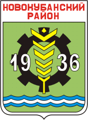 Novokubansk rayon (Krasnodar krai), coat of arms